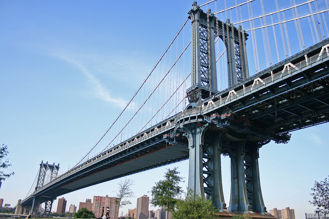 This Image of the Manhattan Bridge was taken September, 20th 2007 from Empire State Park, Brooklyn. (Photographer: David Torres)